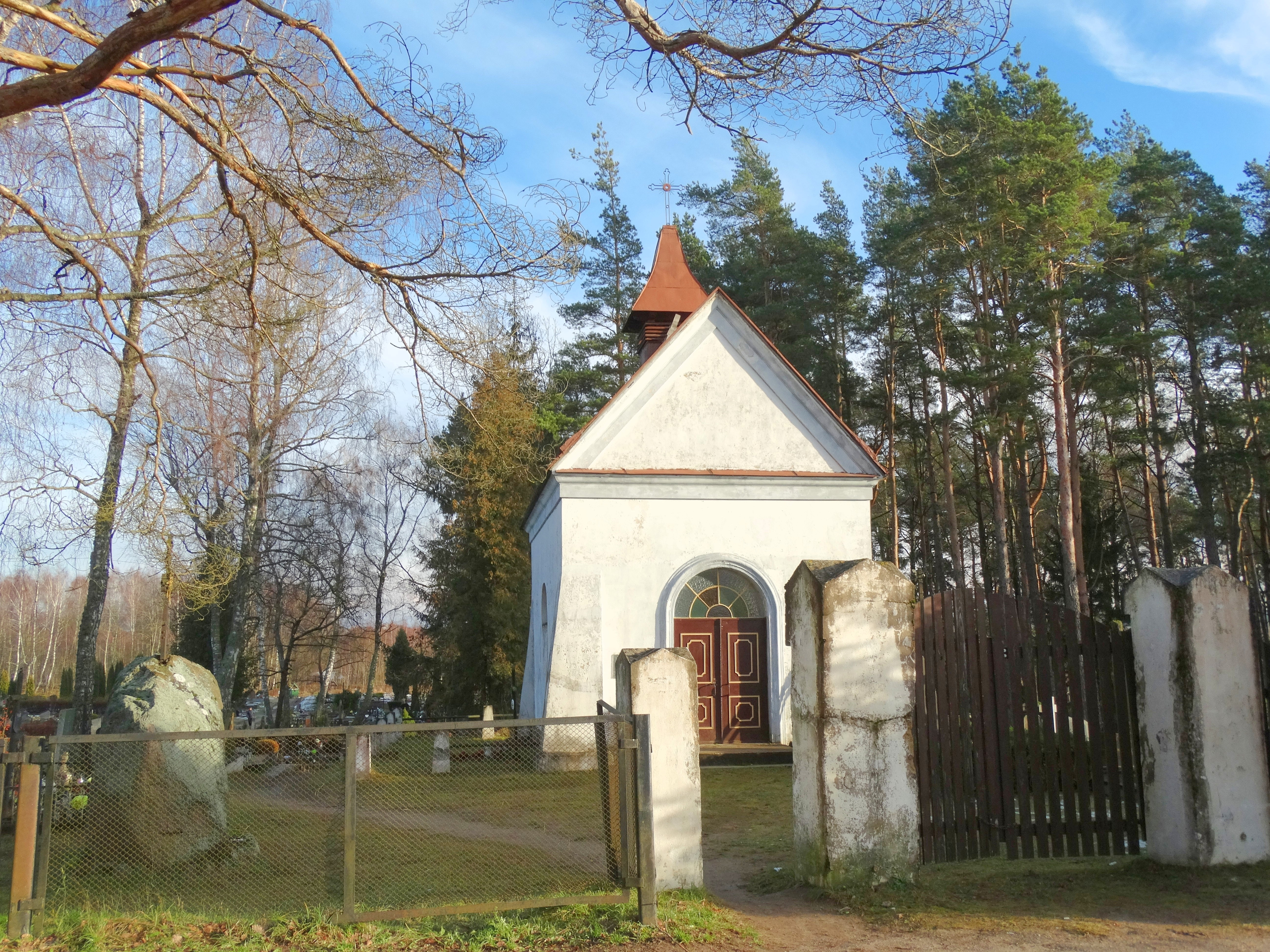 Račkūnai cemetery chapel, Lentvaris, Lithuania